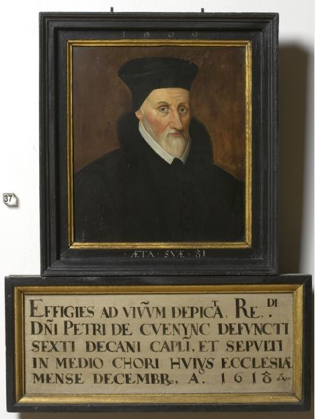 Portrait accompanied by an explanatory signboard underneath